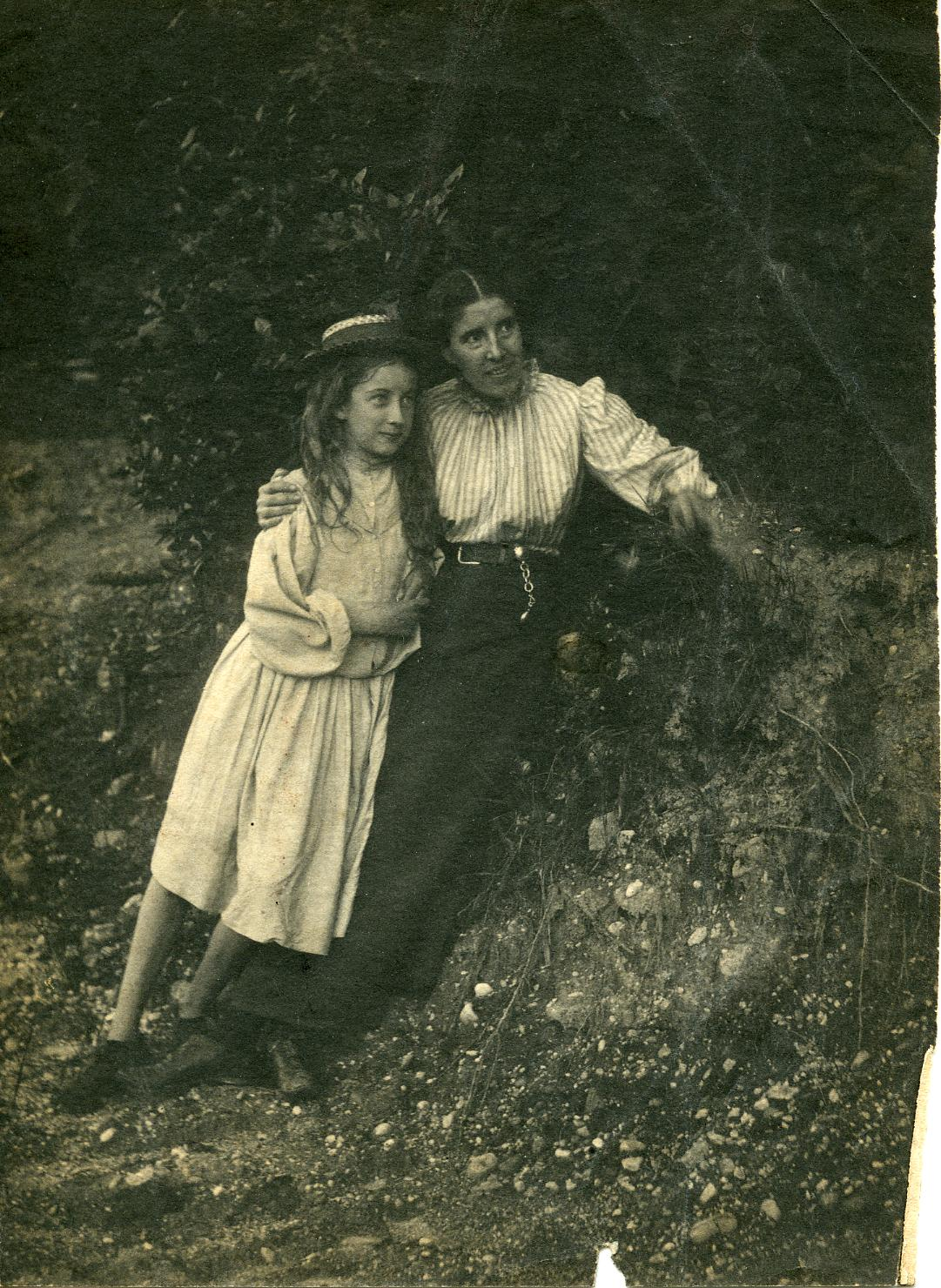 Informal portrait of Charlotte Perkins Gilman and her daughter, Katherine Beecher Stetson, outdoors, ca. 1897. Click here to view catalog record: View catalog record Questions? Ask a Schlesinger Librarian